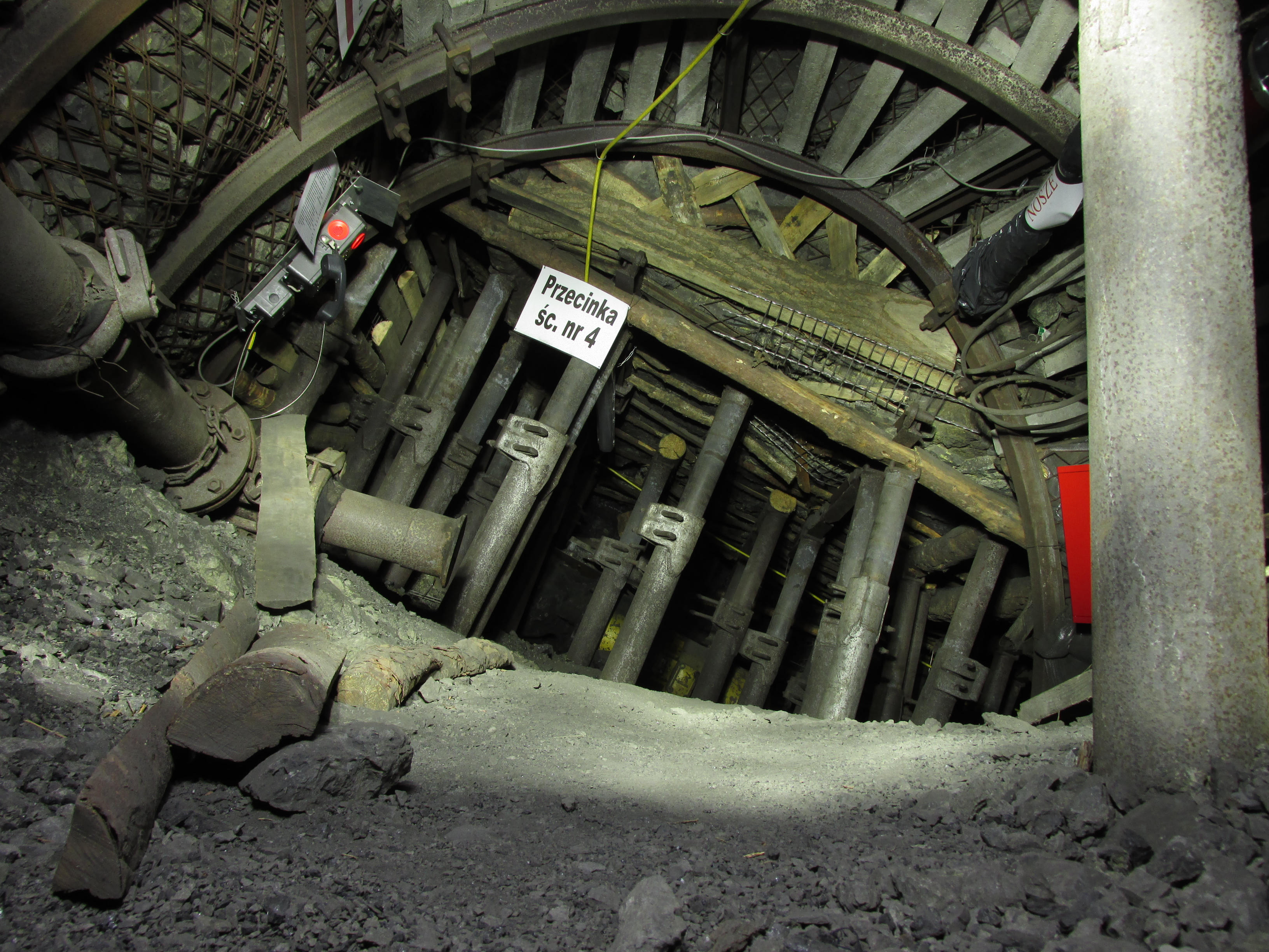 Guido mine, 355 m, longwall 4